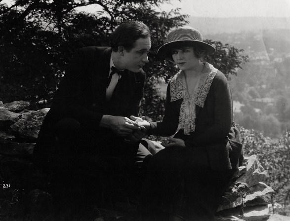 Still with Monte Blue and Diana Allen in the American drama film The Kentuckians (1921) - cropped screenshot